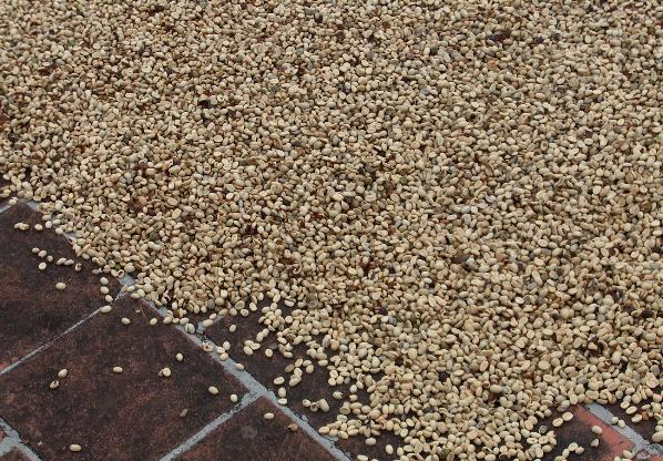 Coffea arabica: Dried beans. Photographer: Mette Nielsen